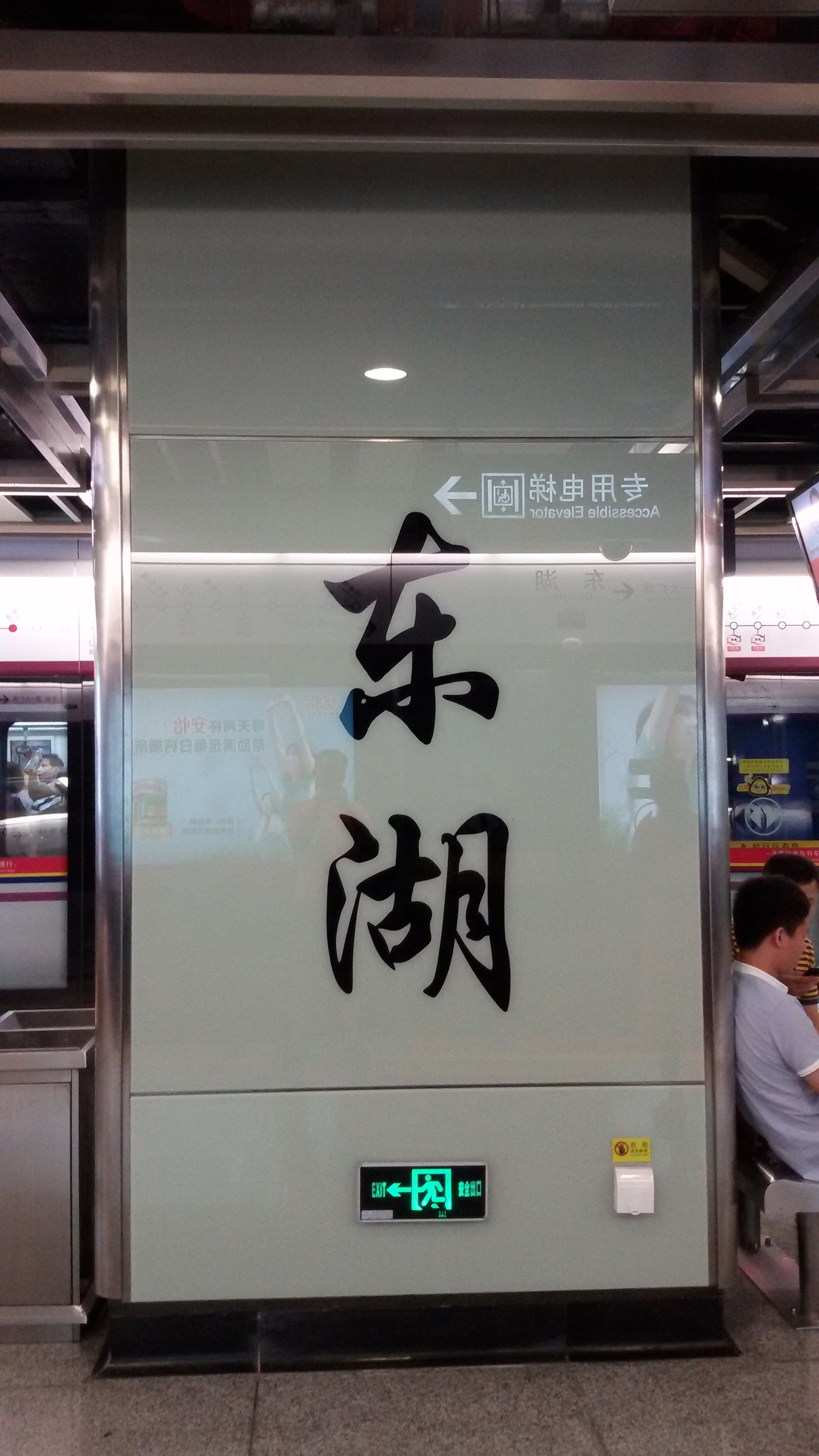 WORD on PILLAR for Donghu Station in Guangzhou Metro.